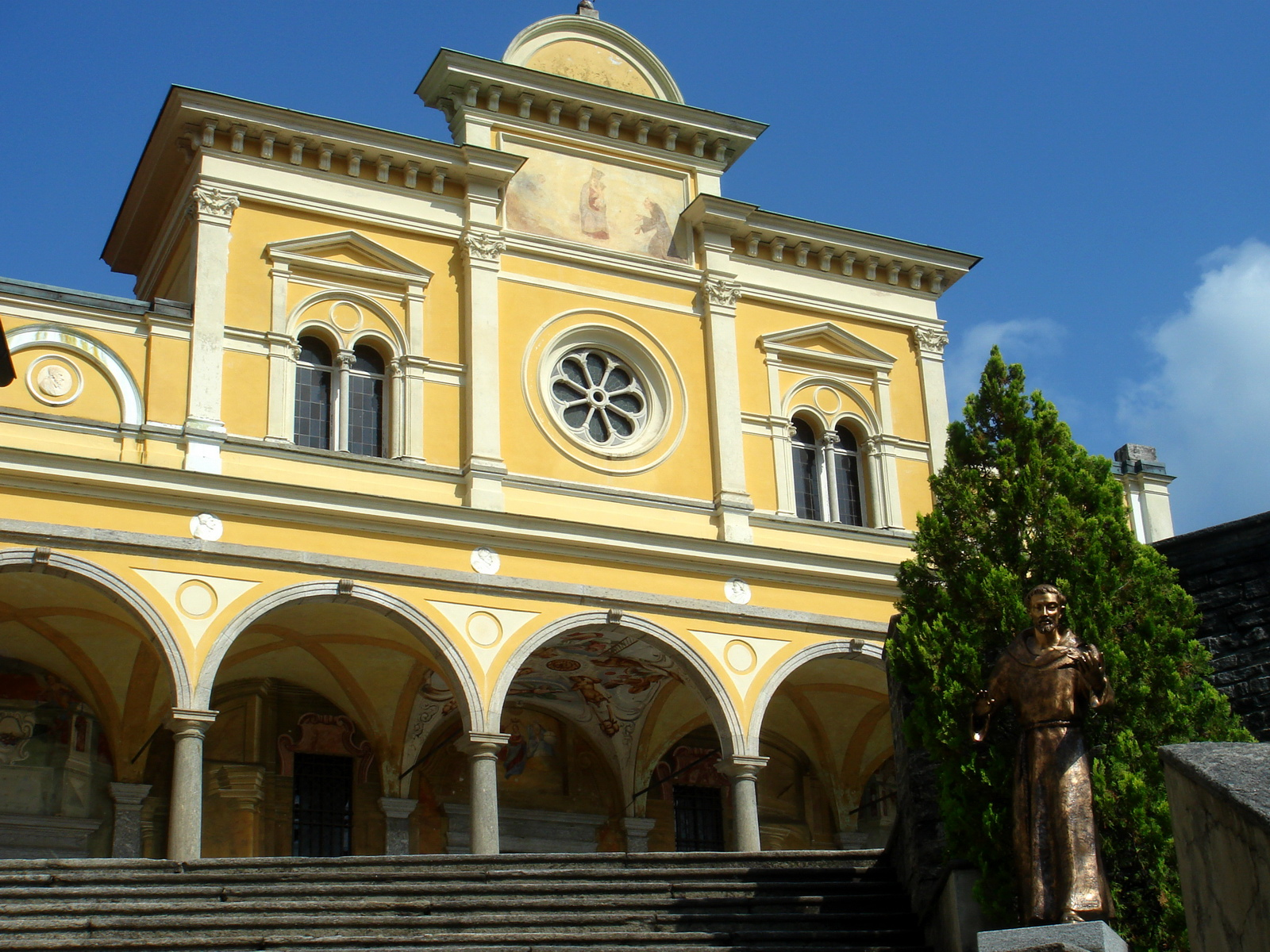 Locarno-Orselina : Madonna del Sasso monastery